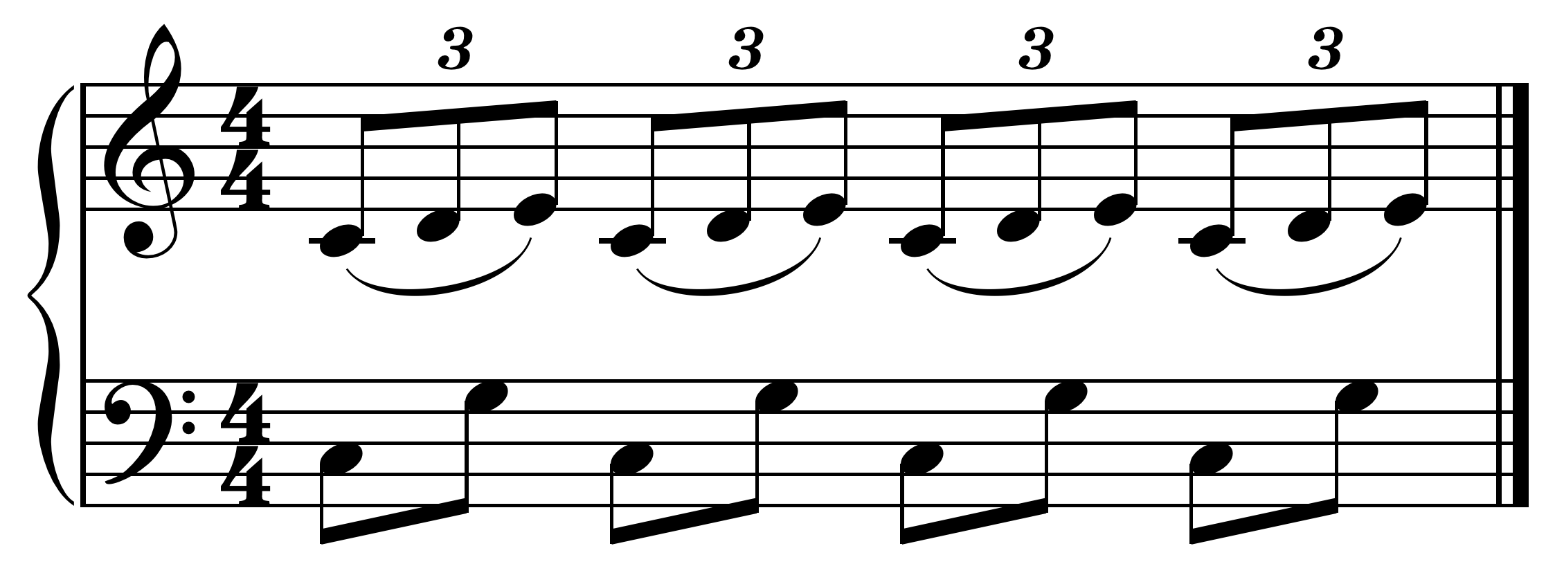 Polyrhythm: Triplets over duplets in all four beats. Created by Hyacinth (talk) using Sibelius 5. See File:Polyrhythm.mid.